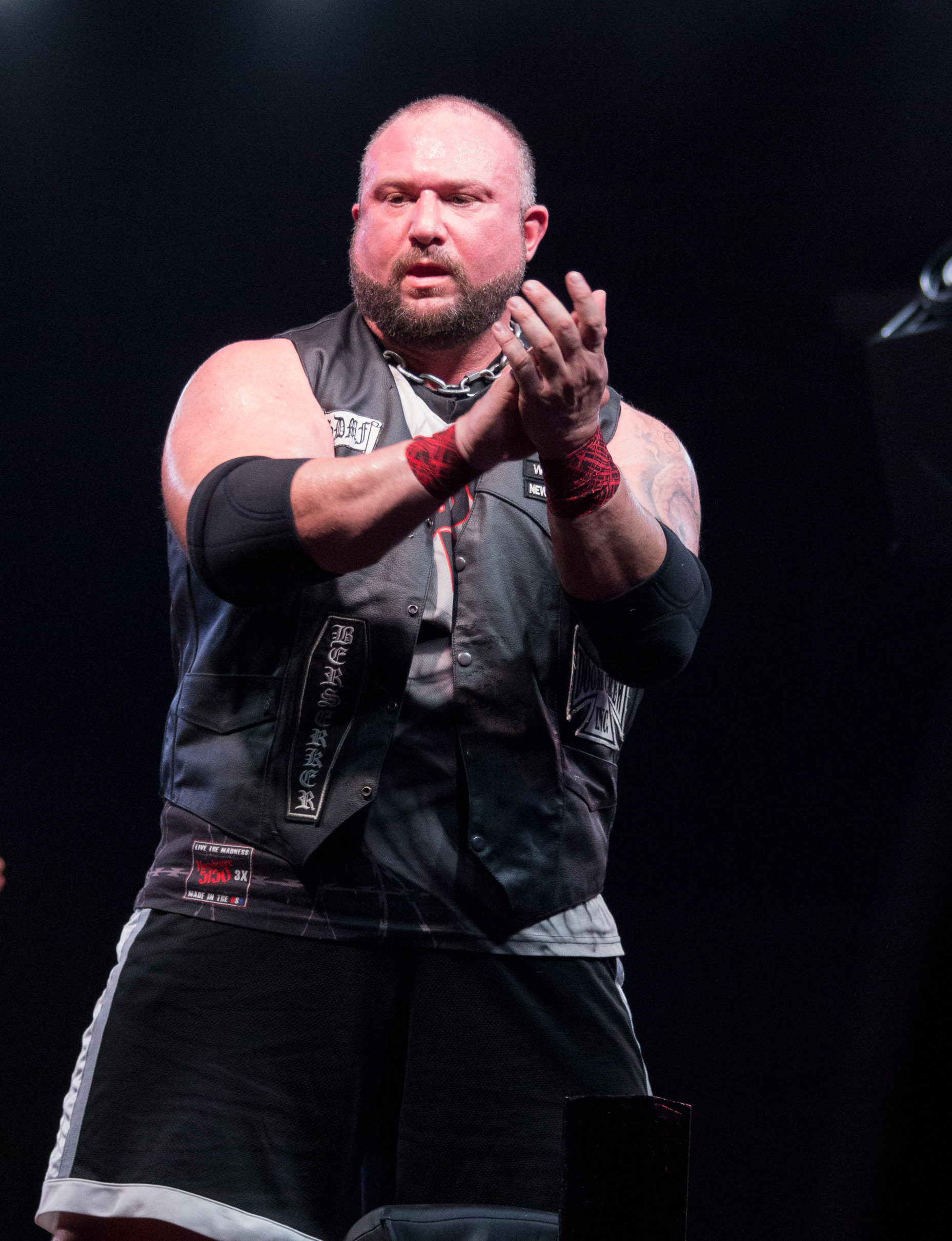 Bully Ray of Team 3-D posing post match at House of Hardcore 9 in Toronto, ON